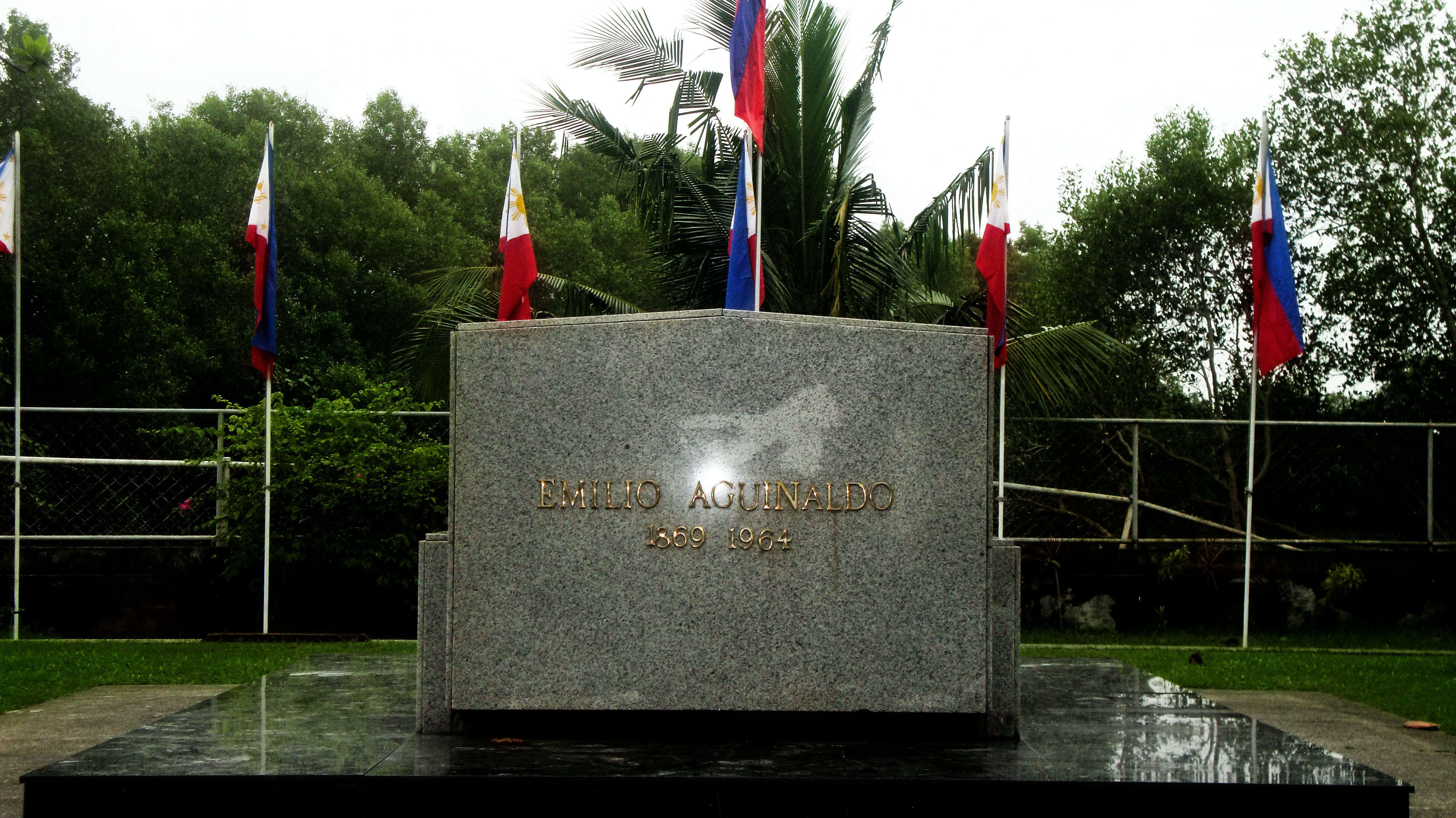 This is the tomd of the Late Gov. Emilio Aguinaldo, located at the backyard of his own Ancestral House in Kawit, Cavite.